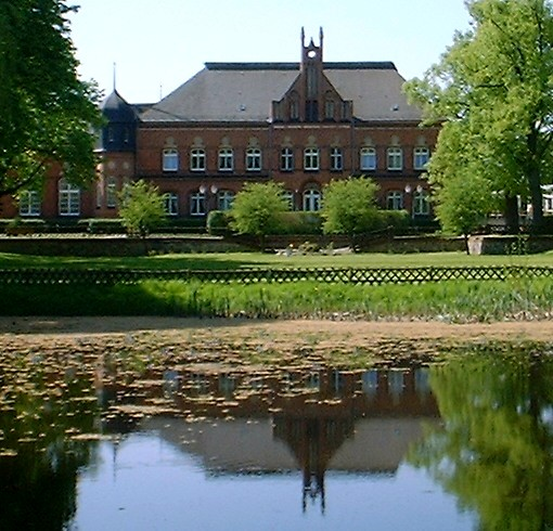 Manor house of the family von Quast in Neuruppin-Radensleben in Brandenburg, Germany